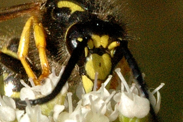 Dolichovespula sylvestris from Commanster, Belgian High Ardennes .